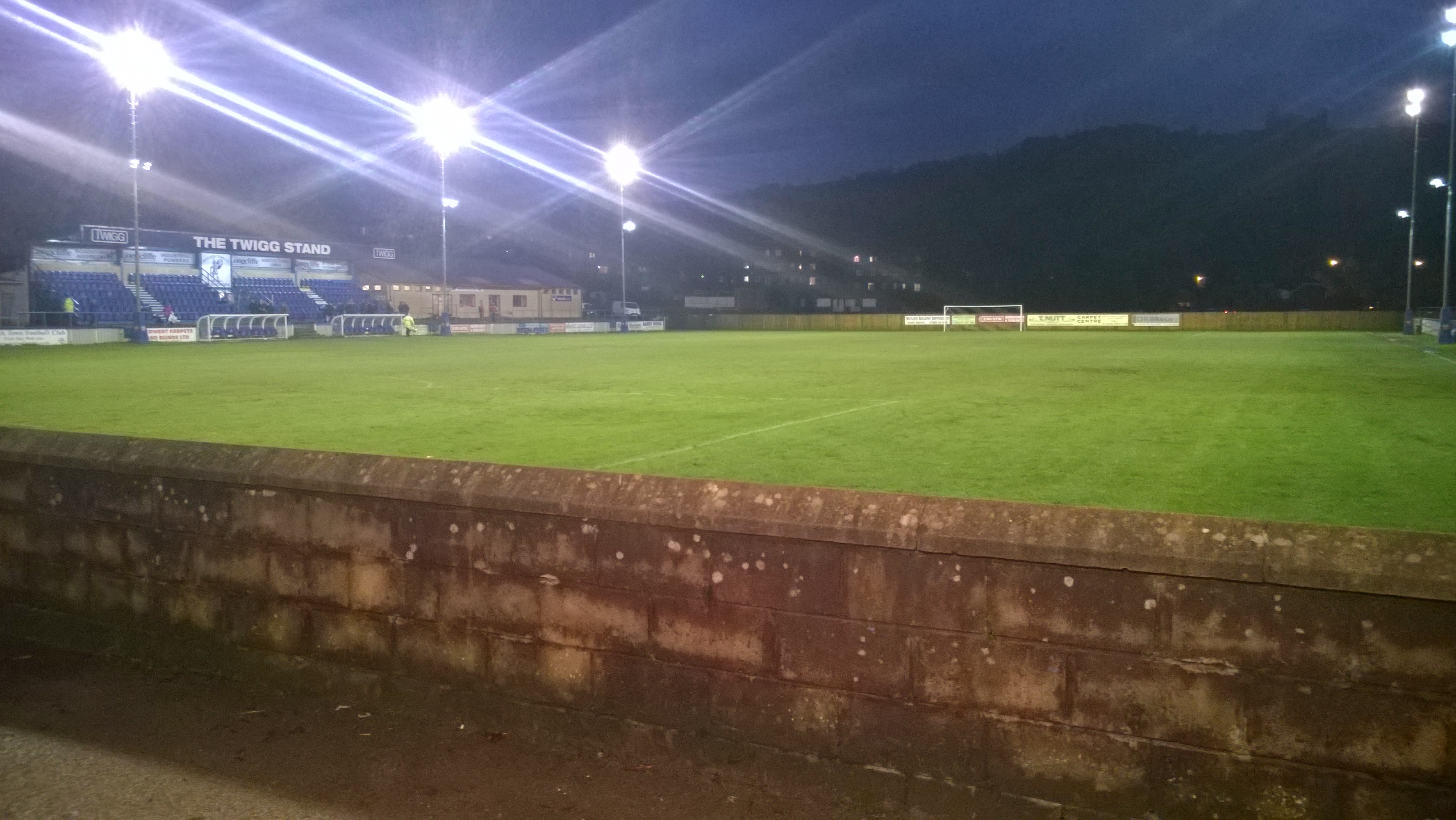 Main Stand fully completed and Bar/Function room.